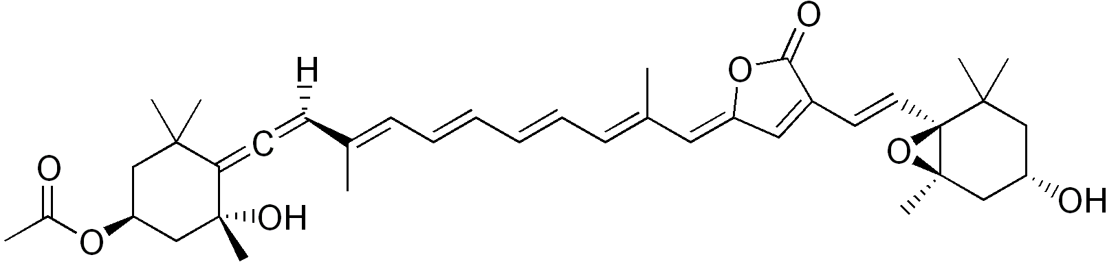 chemical structure of peridinin